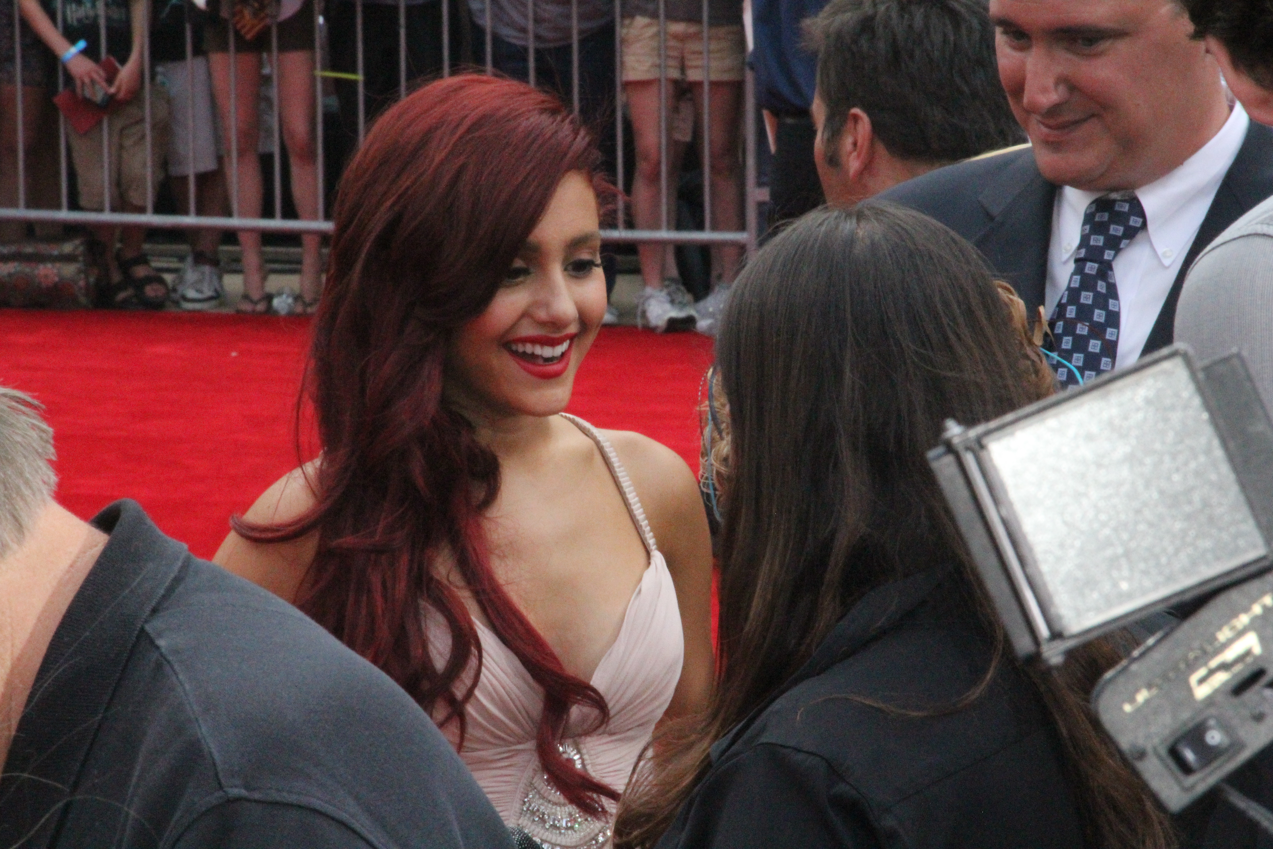 Ariana Grande in Avery Fisher Hall, Lincoln Center, New York City. Taken from the Press Pen, NOT the Photo Pit.